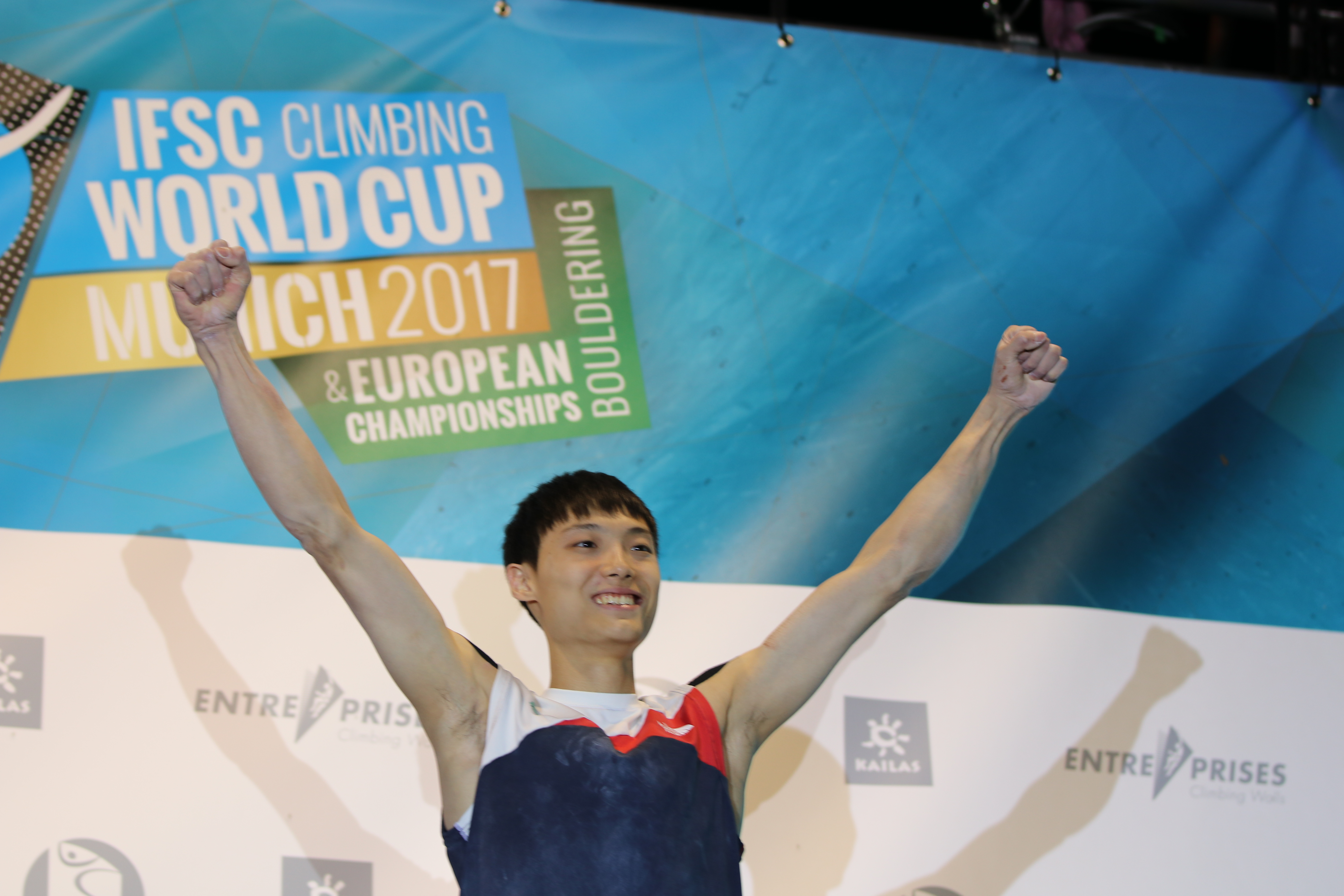 Jongwon Chon, sports climber from Korea, at the Boulder Worldcup 2017 in Munich, Germany